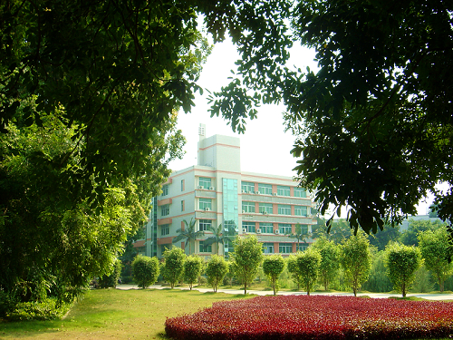 A glimpse of the teaching building in Heyuan middle school.